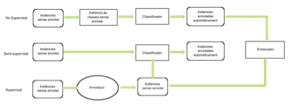 aprenentatges